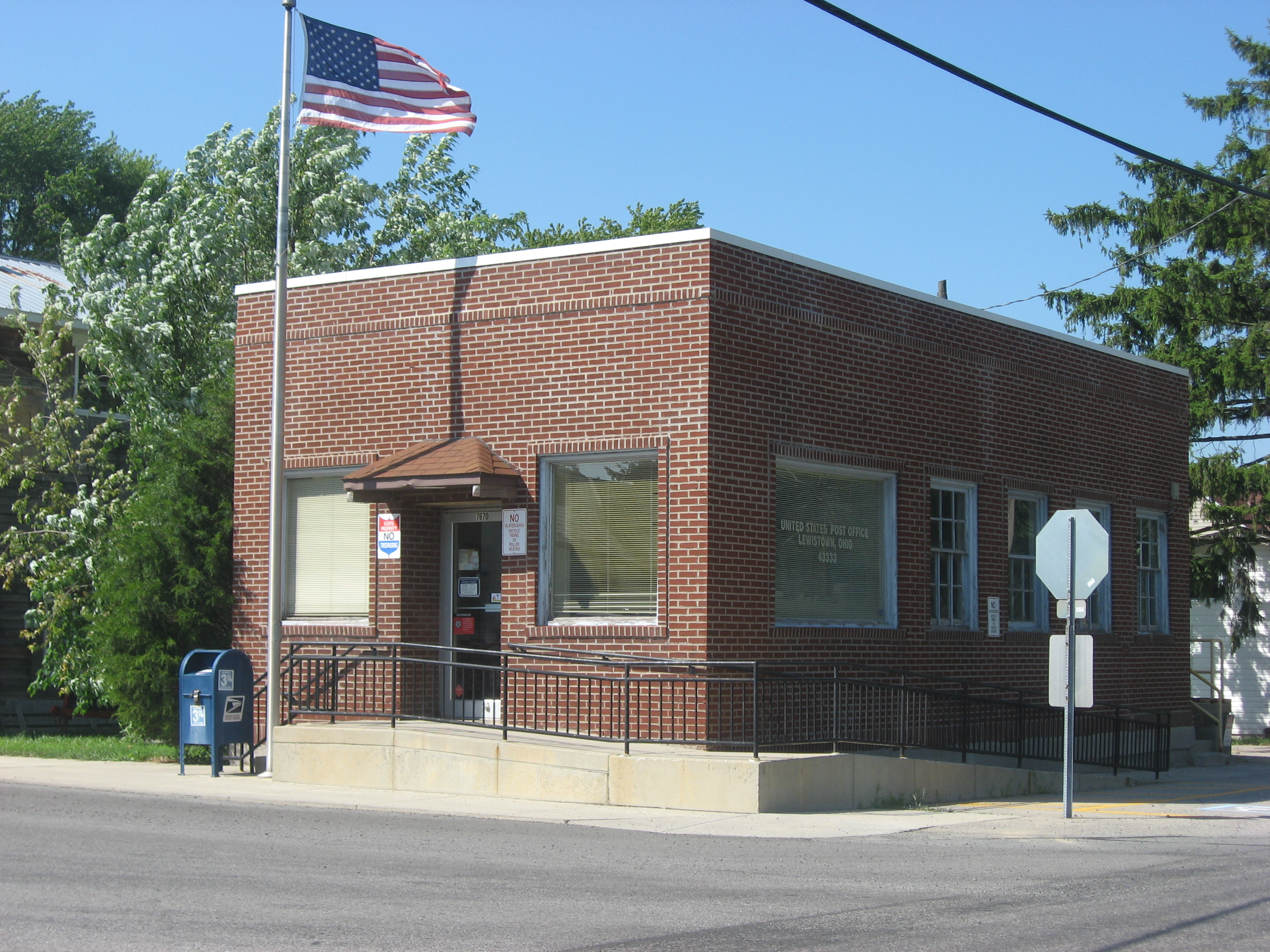 The post office and principal intersection in Lewistown, an unincorporated community in Washington Township, Logan County, Ohio, United States. Built in 1910, it was a bank until 1932.